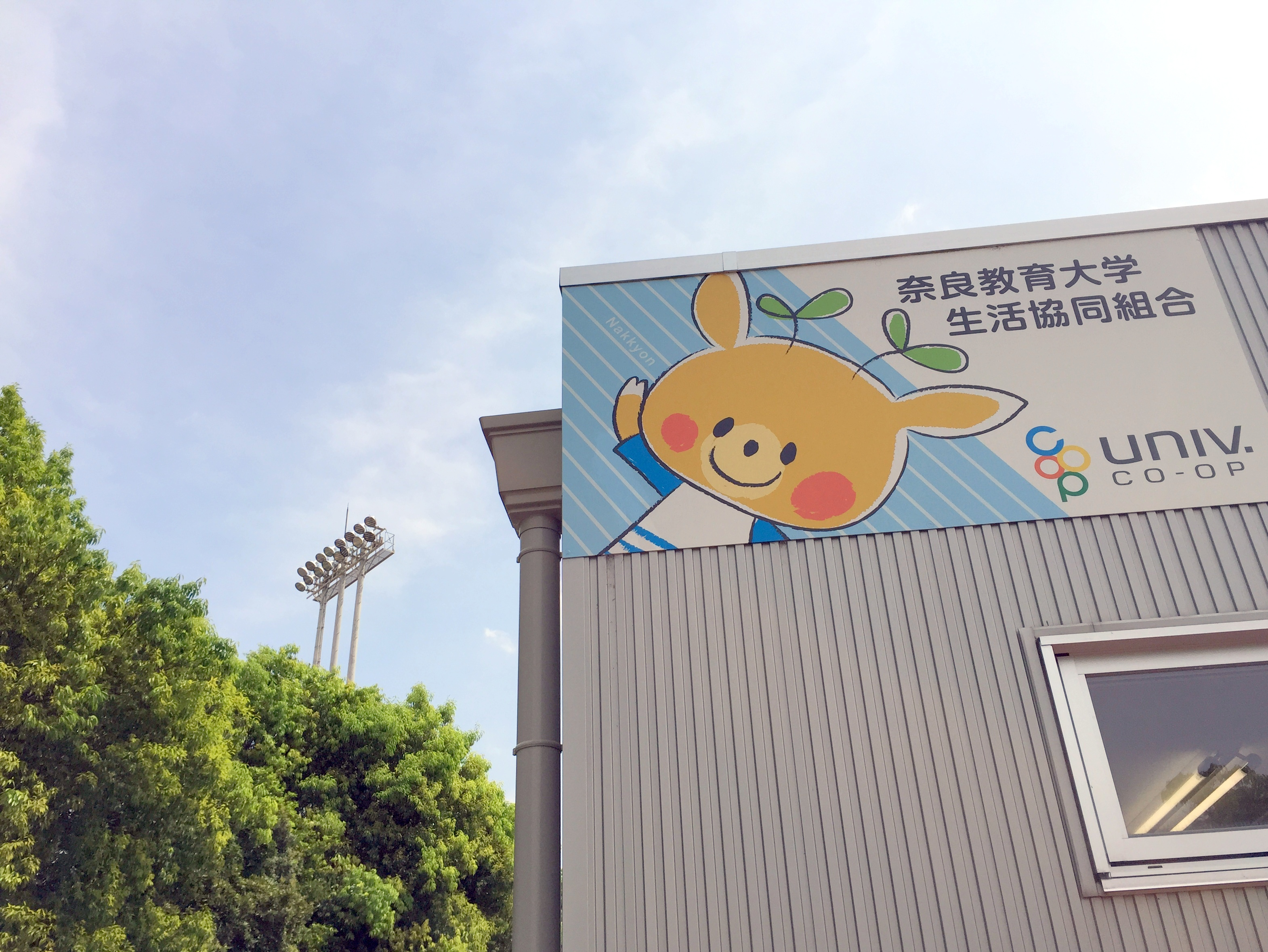 Nakkyon at Nara University of Education CO-OP